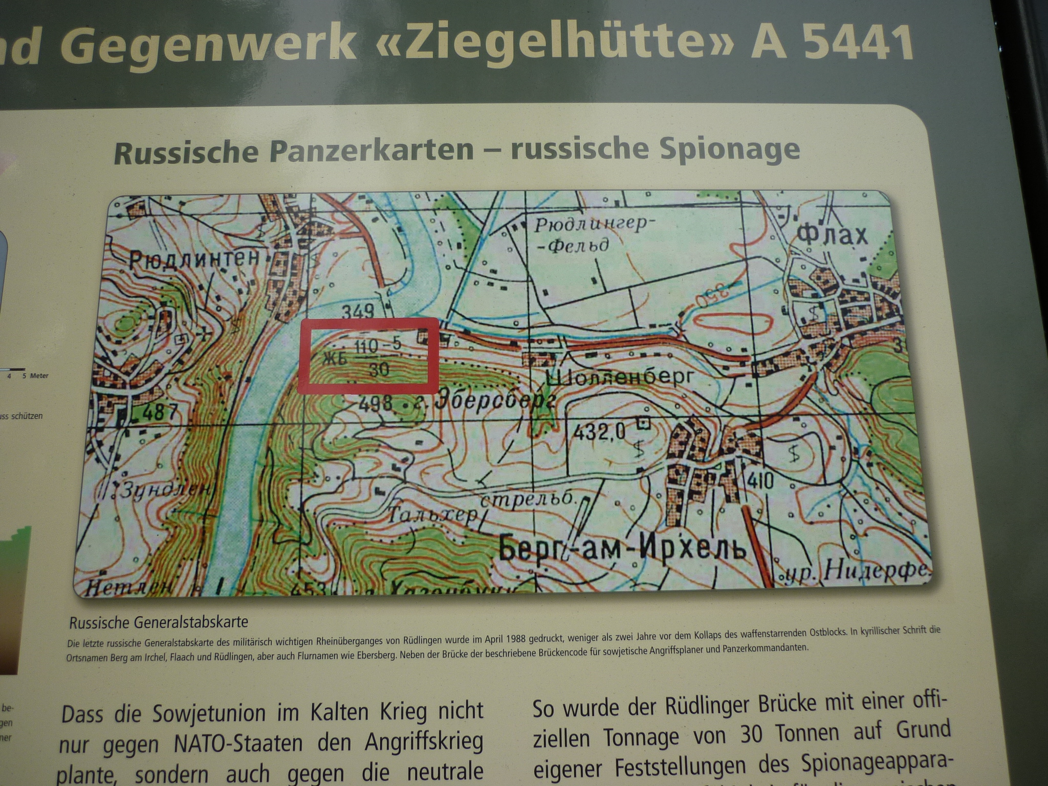 Russian military map of the Rhine bridge area at Rüdlingen, Switzerland